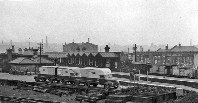 Burnley (Central) Station. View eastward, towards Colne (to left); ex-Lancashire & Yorkshire main line, Preston/Manchester - Blackburn - Accrington - Burnley - Colne, called Bank Top until 10/44.